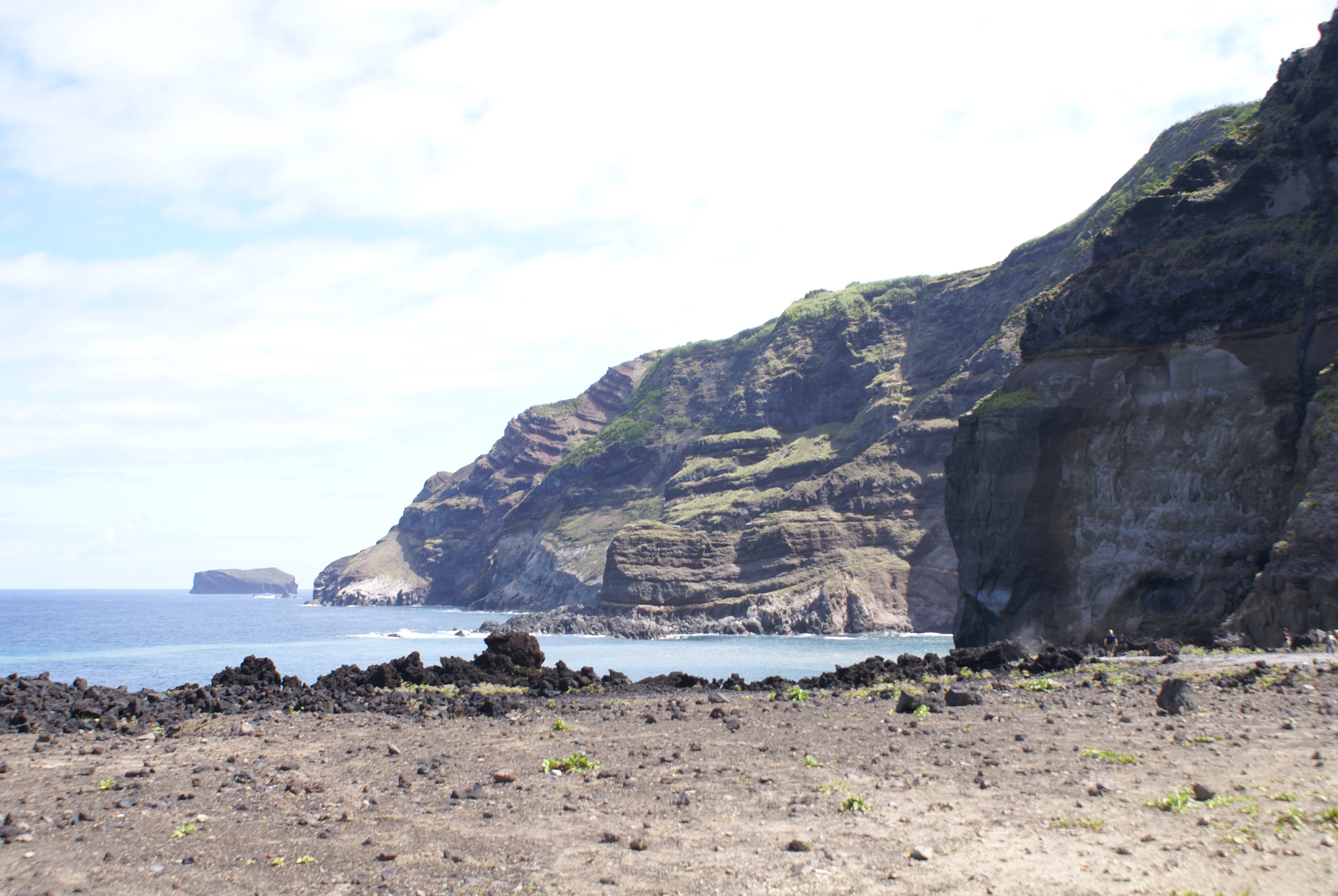 View from Ponta da Ferraria, showing one of the islets of Mosteiros, as seen from Ginetes, Ponta Delgada, São Miguel (Azores), Portugal